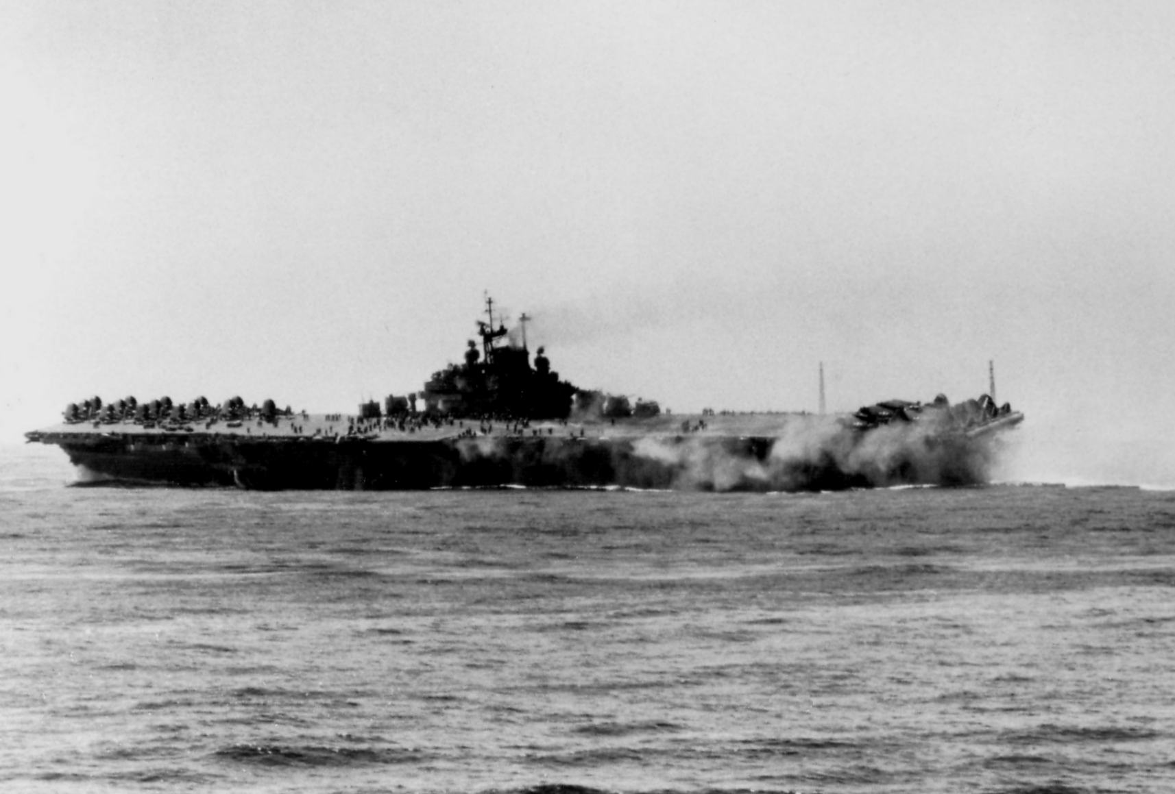 The U.S. Navy aircraft carrier USS Intrepid (CV-11) pictured in the Pacific after being hit by kamikaze aircraft, 16 April 1945.